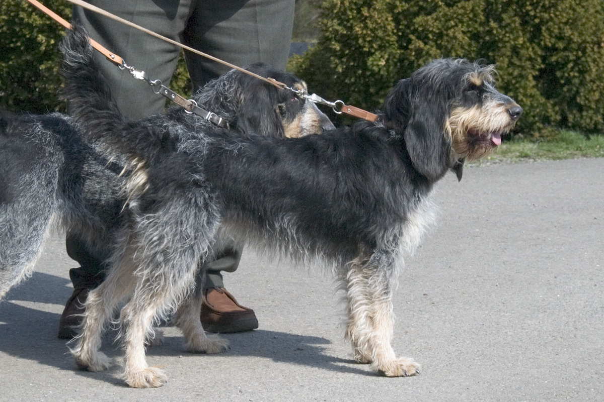 French Blue Gascony Griffon: Griffon Bleu de Gascogne